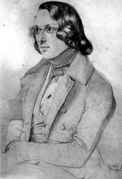 Wilhelm Molitor as a student 1840